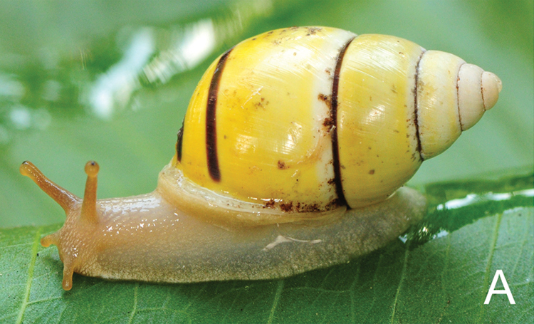 Photo of a live Amphidromus globonevilli from the type locality with a shell height of approximately 20 mm .